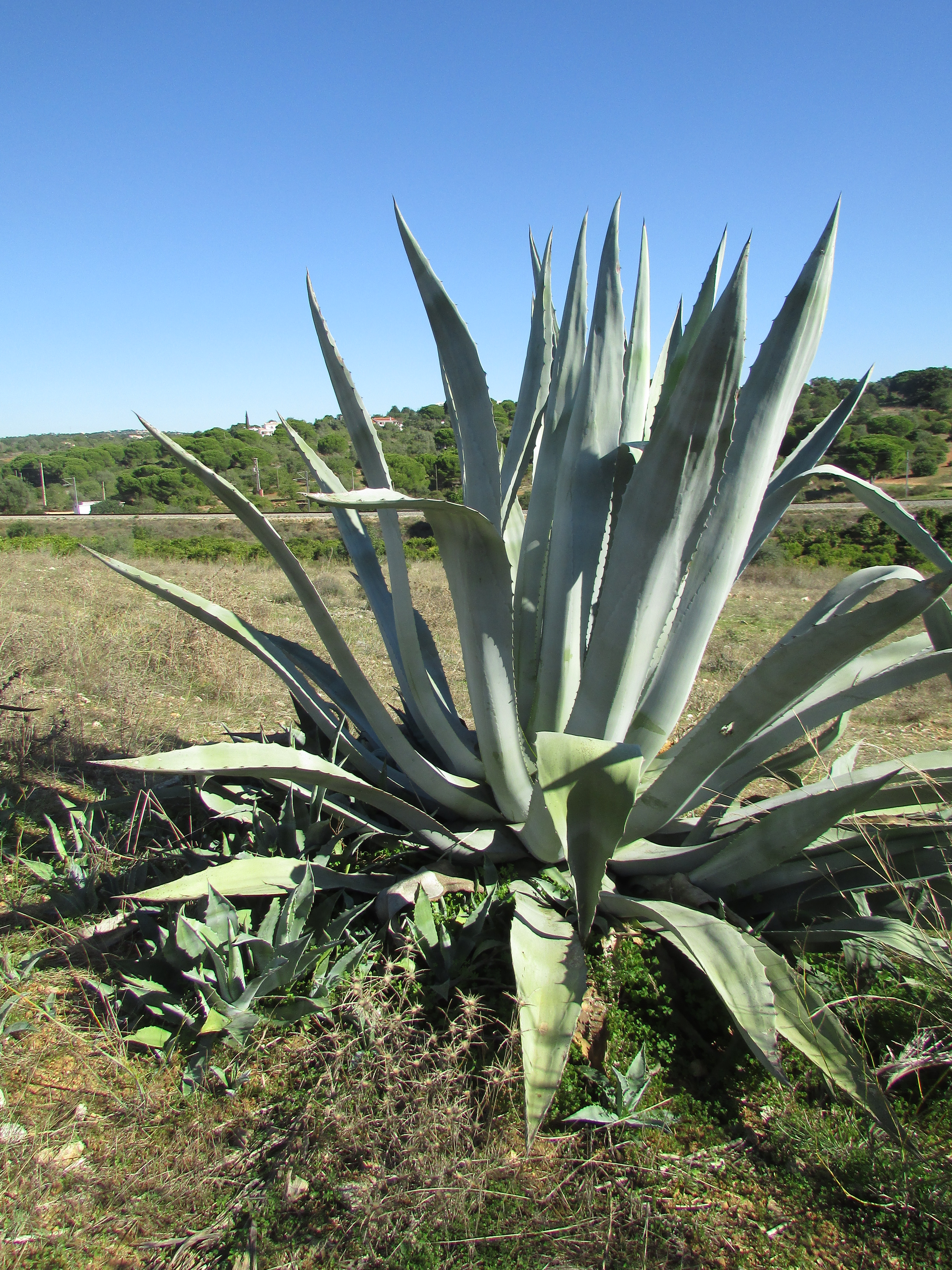 An example of a Century plant (Agave americana) which is located in the countryside within the Neighbourhood of Mosqueira north of the city of Albufeira, Algarve, Portugal.